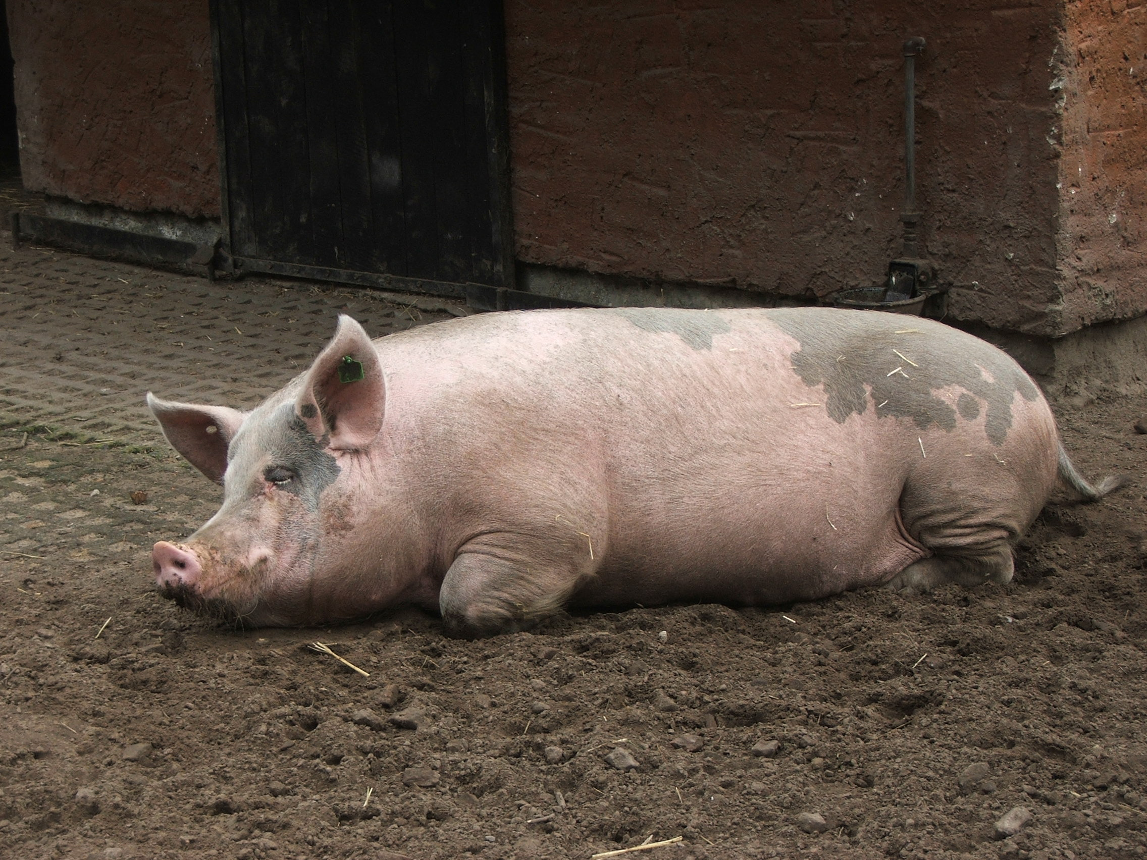 Sus scrofa domestica, Zoo in Ueckermünde, Germany